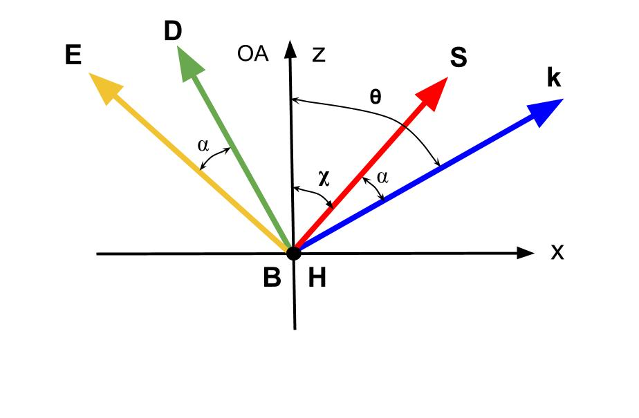 Electromagnetic field vectors and relative angles in anisotropic medium